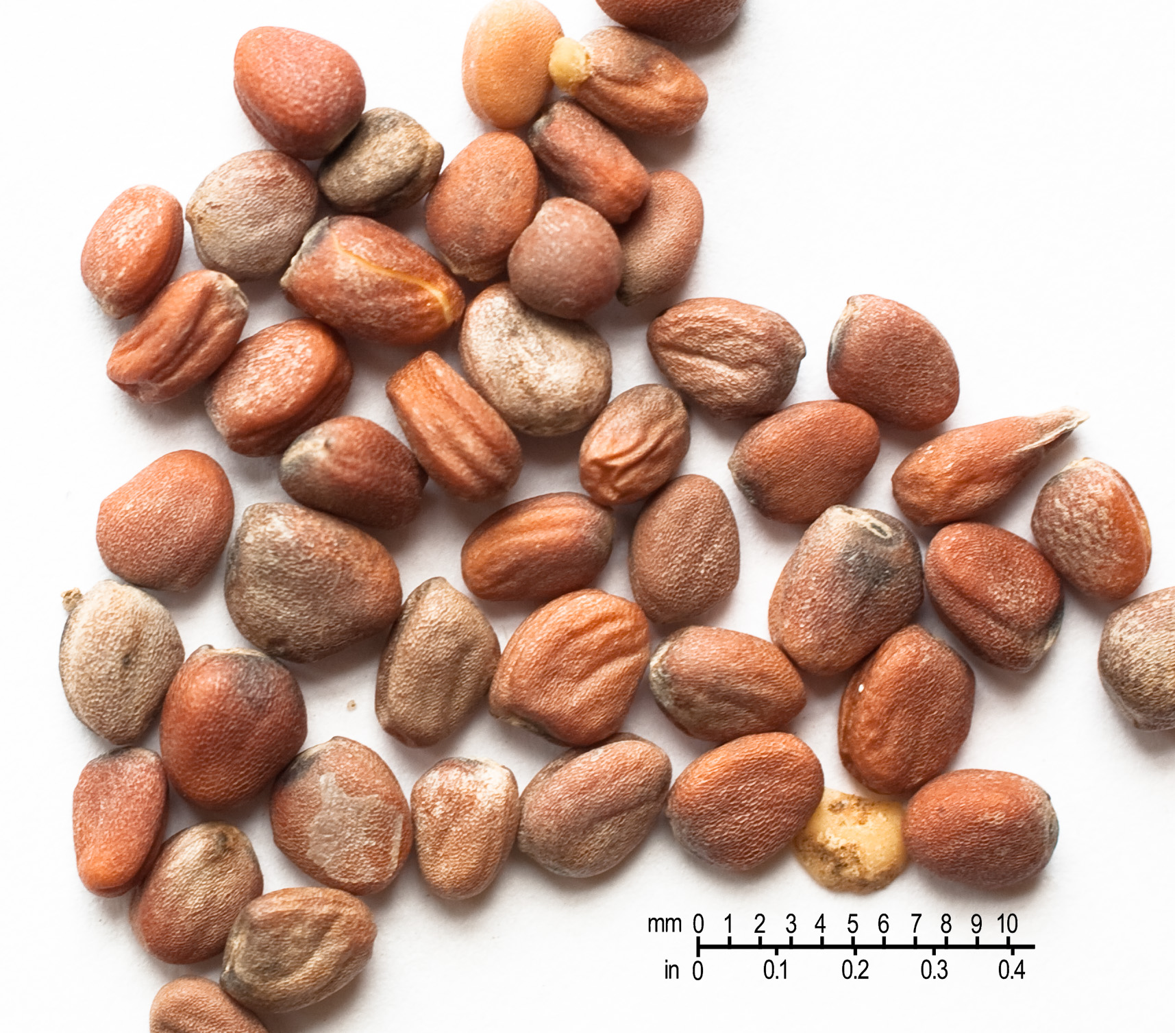 Radish seeds photographed by Brian Arthur